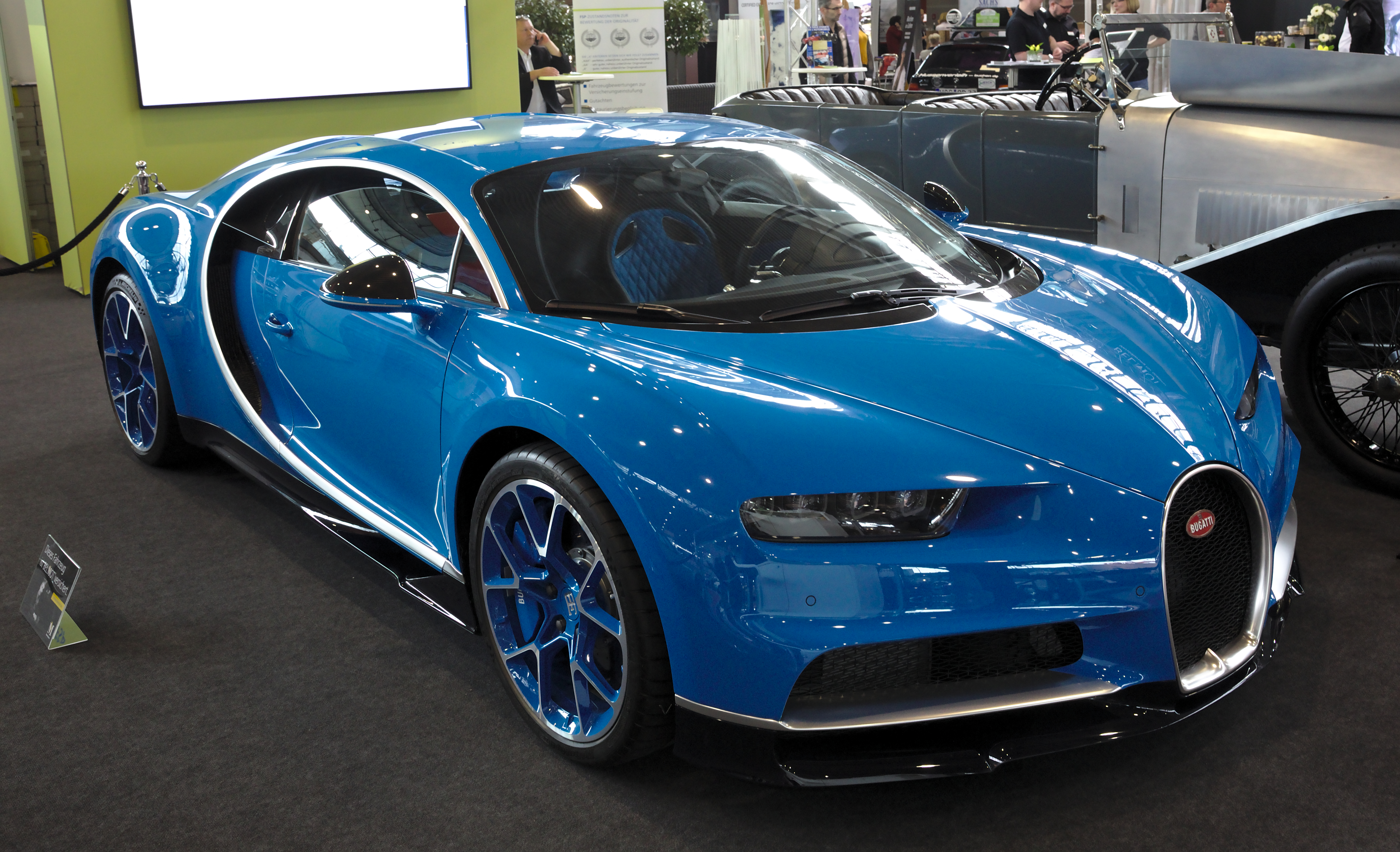 Bugatti Chiron at Retro Classics 2019